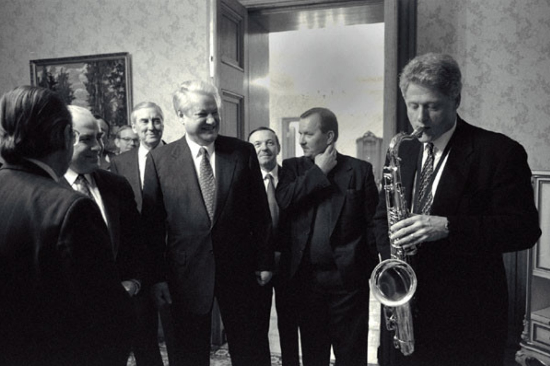 President Bill Clinton plays the saxophone presented to him by Russian President Boris Yeltsin at a private dinner hosted by President Yeltsin at Novoya Ogarova Dacha, Russia